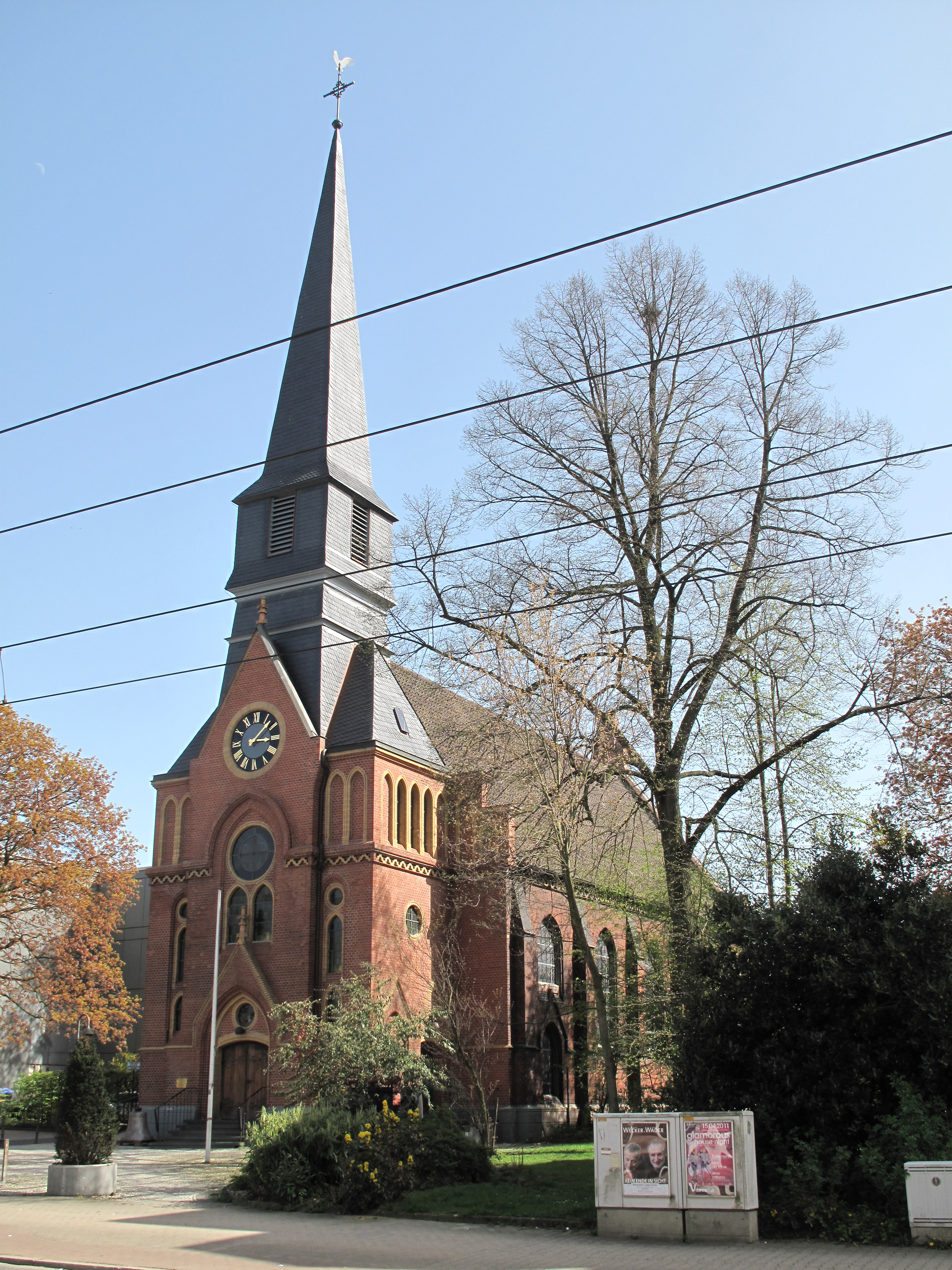 Gelsenkirchen-Buer, Horster Straße 35: Apostelkirche (protestant church); built 1893